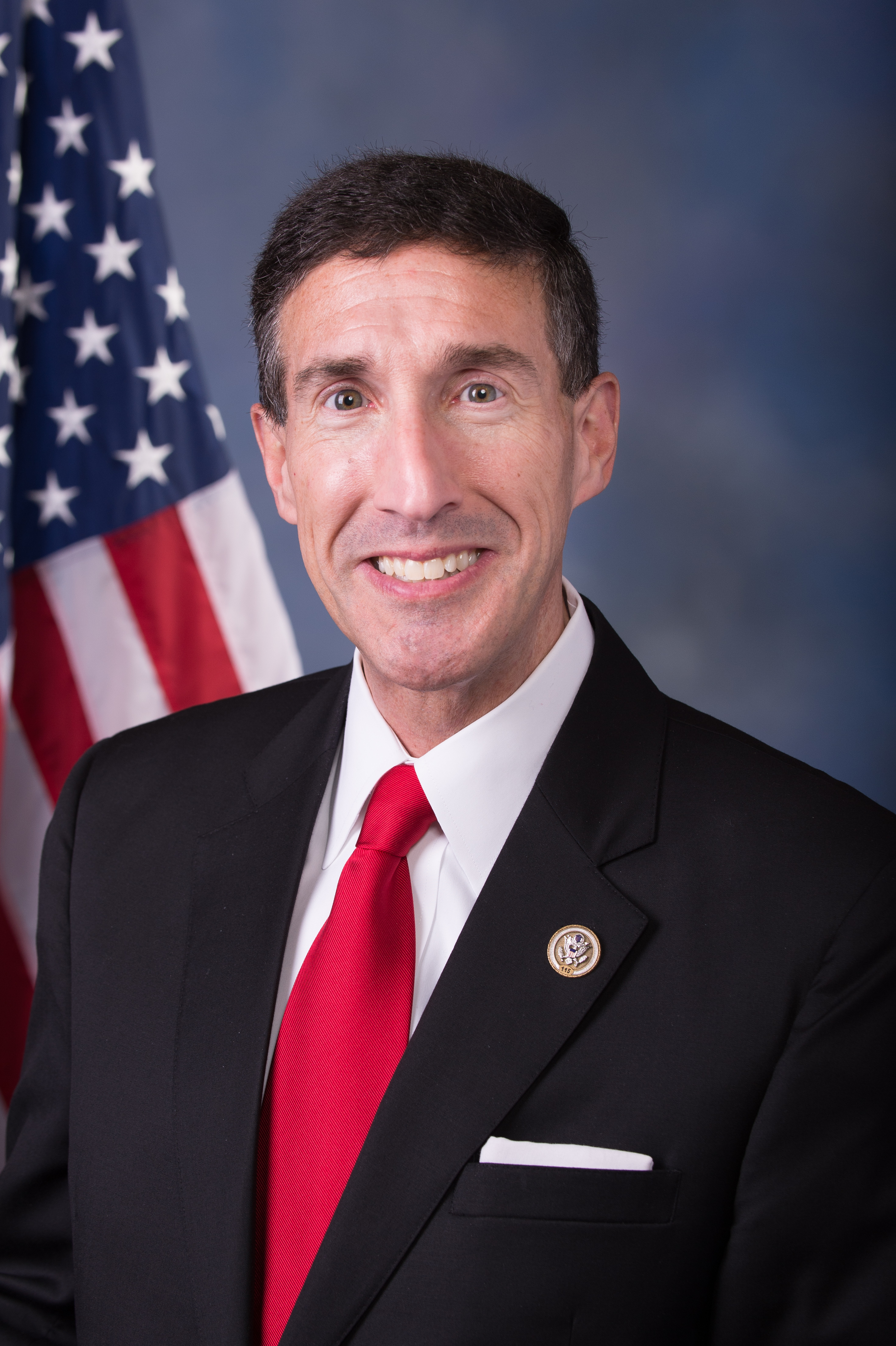 U.S. Rep. David Kustoff (R-TN)